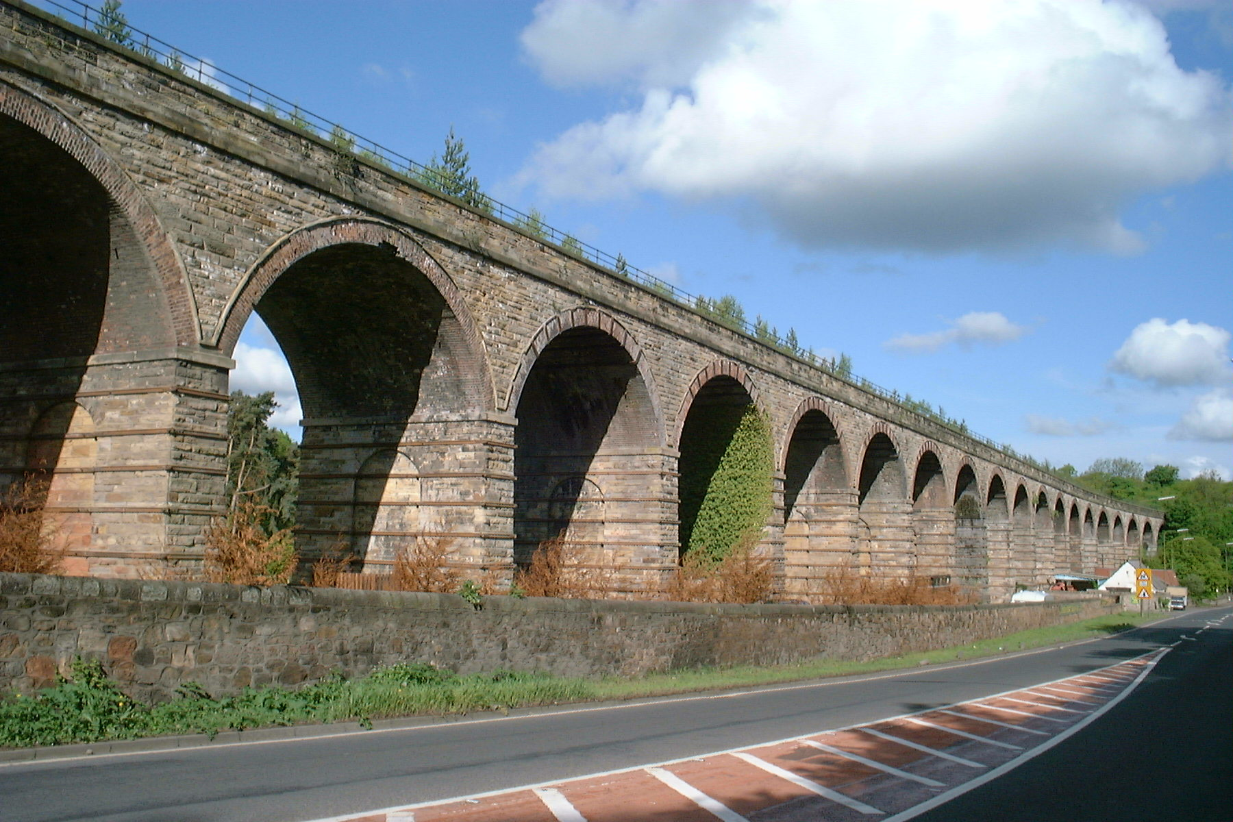 Lothianbridge Viaduct on the Waverley Route south of Edinburgh. This railway line ran between Carlisle and Edinburgh, a section near Edinburgh has now been reinstated, and the viaduct is one of the main engineering structures of that line.